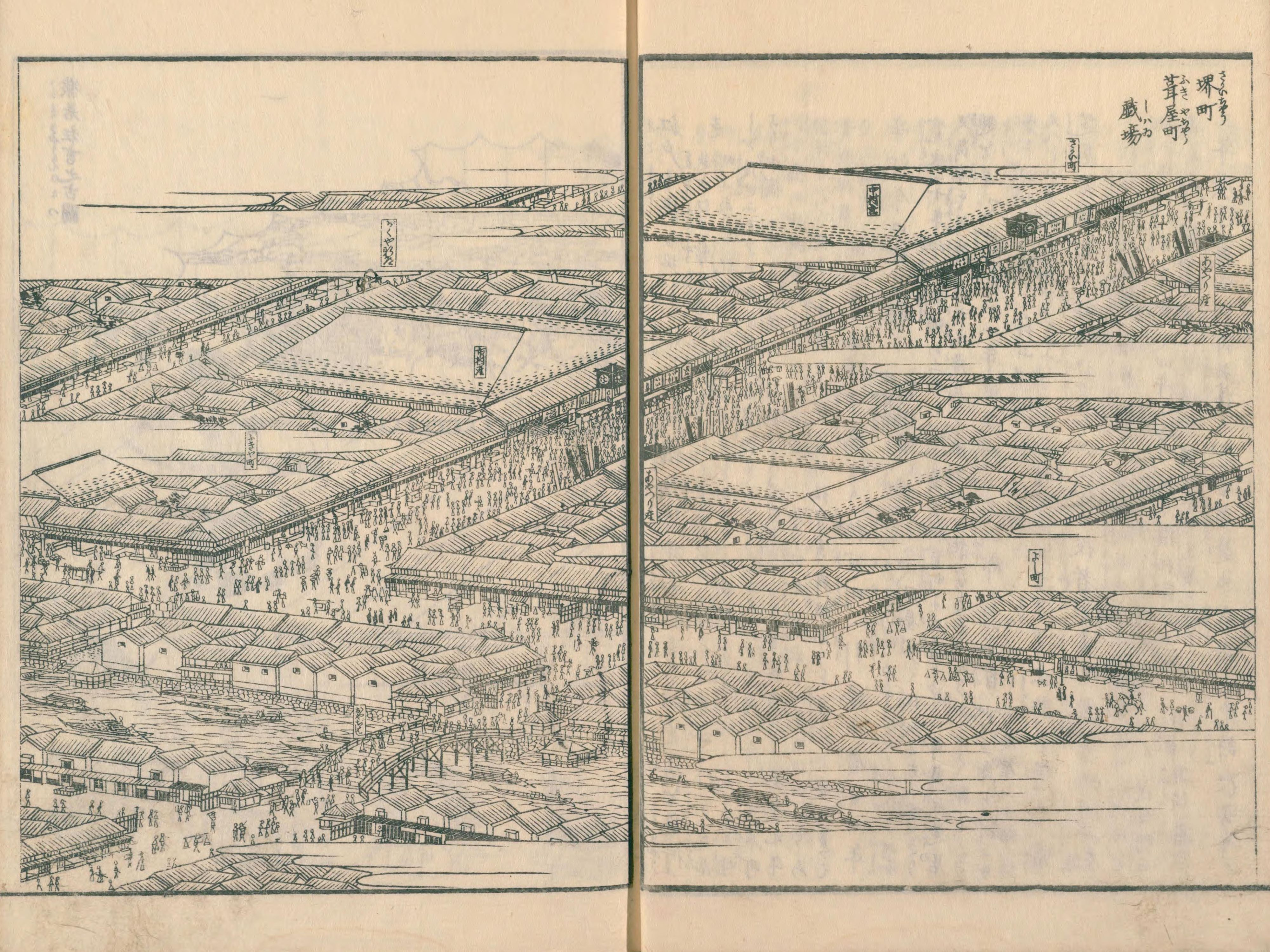 Sakai-chō and Fukiya-chō, theater district in Edo Meisho Zue vol. 1 (book 2)